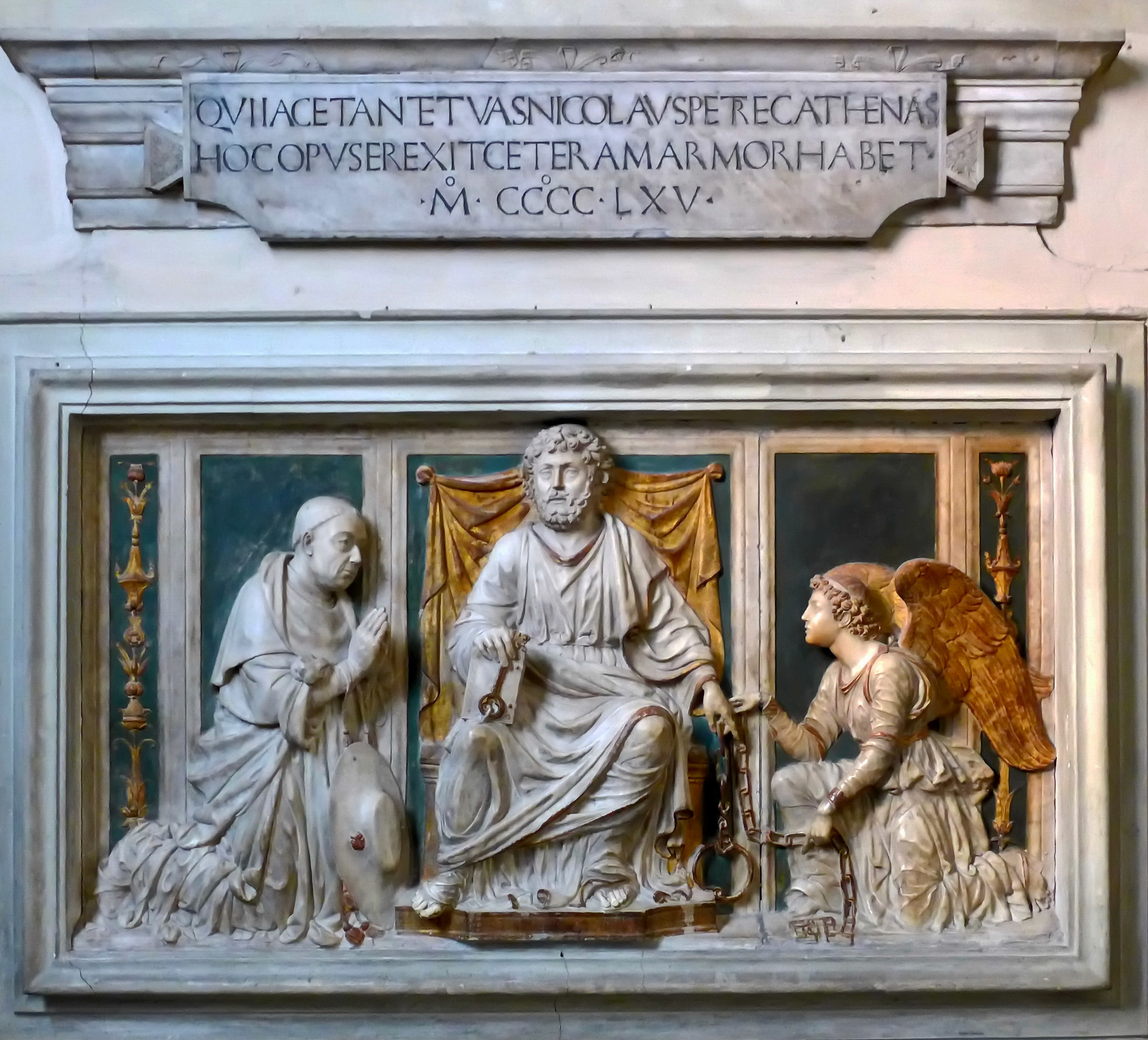 Epitaph for Cardinal Nicolaus Cusanus; San Pietro in Vincoli, Rome